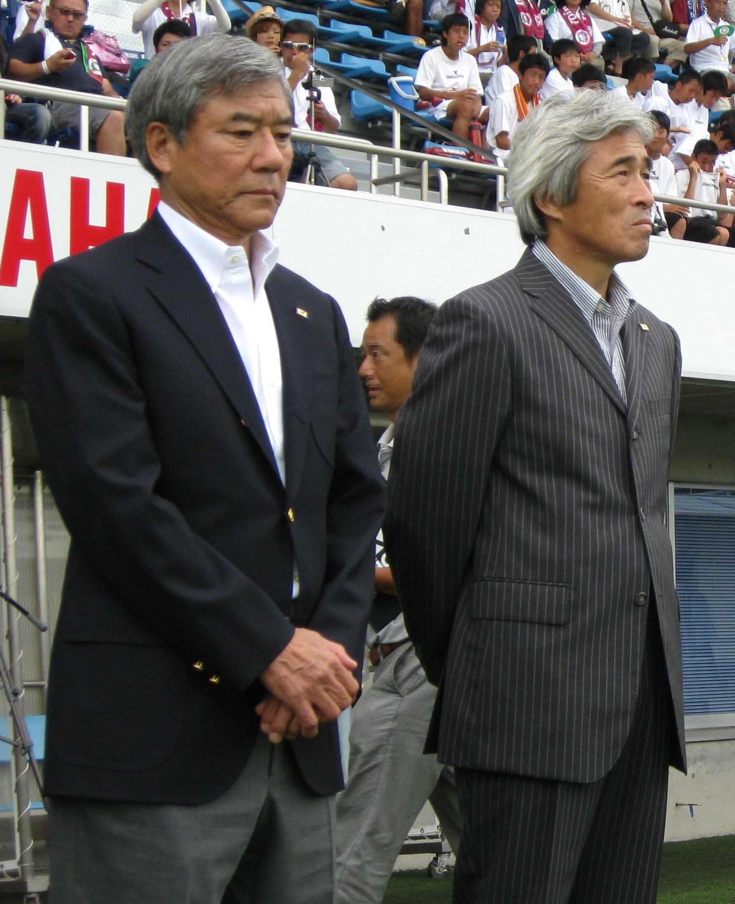 Japanese ex-footballer Kuniya Daini (left) and Eiji Ueda (right) at the closing ceremony of 20th All-Japan Girls' High School Football Championship (in Iwata, Shizuoka, Japan)